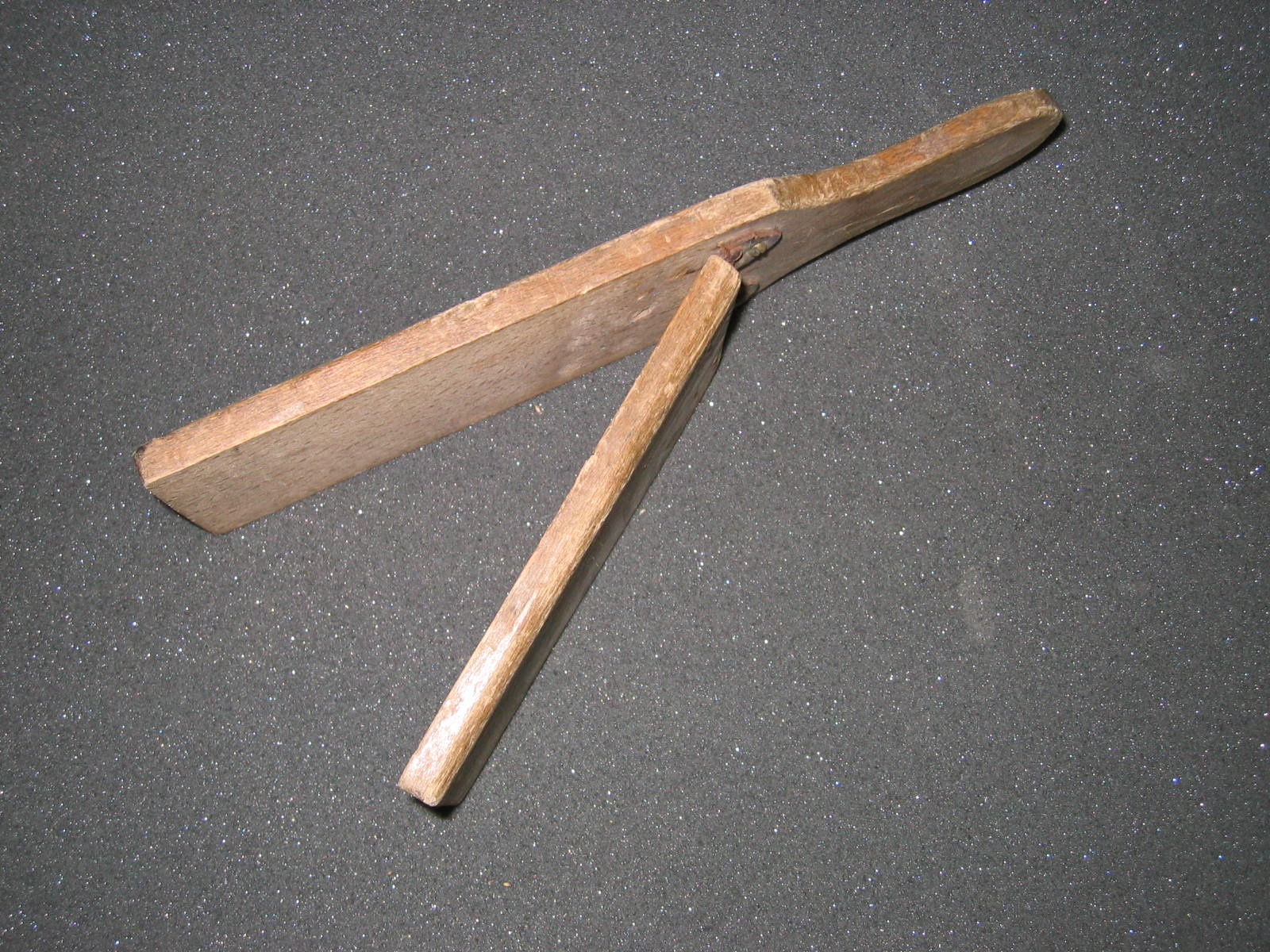 Whip, music instrument